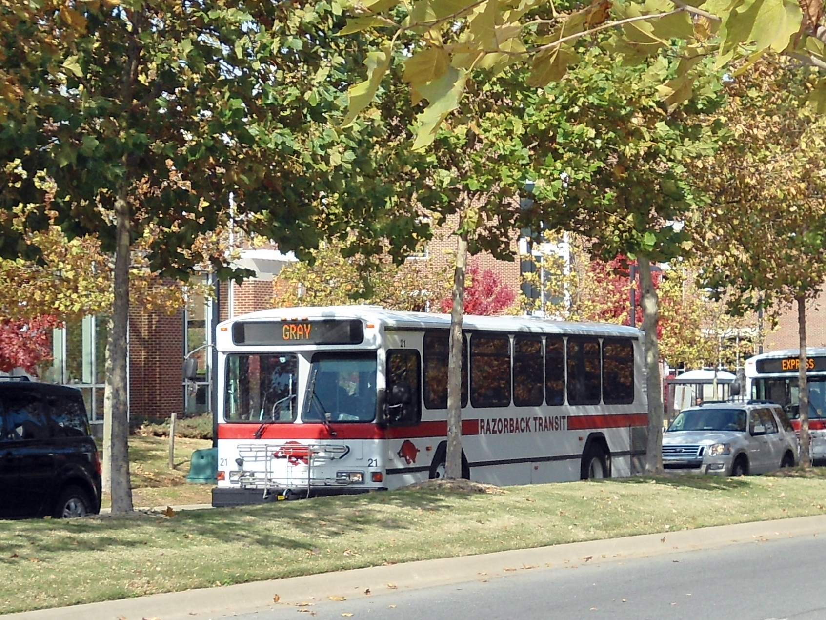 Razorback Transit "Gray Route" bus in service, Garland Avenue, Fayetteville, Arkansas